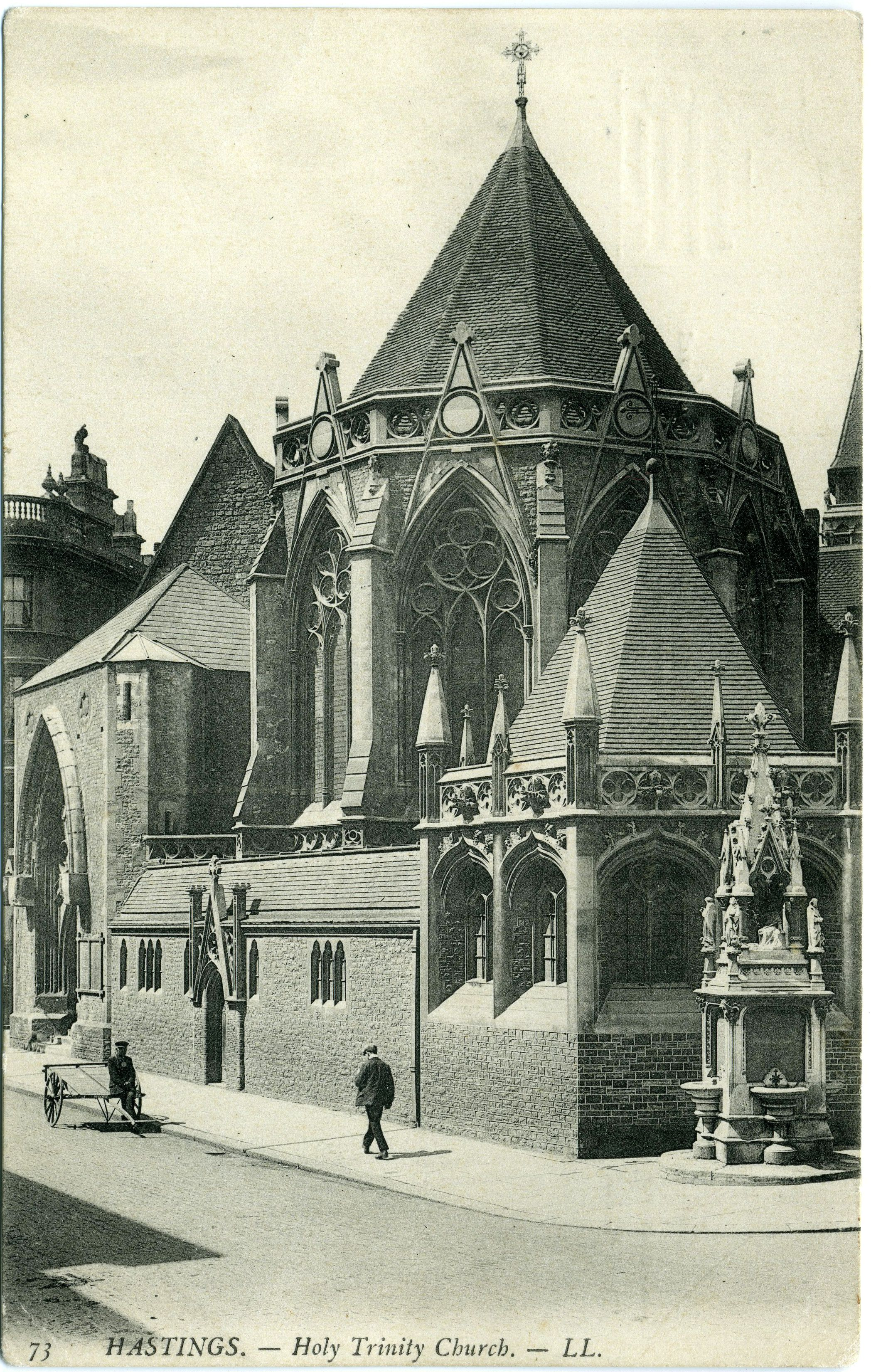 Postcard of Holy Trinity Church, Robertson Street, Hastings, East Sussex, England.The postcard is dated probably around the end of 1907. The building was designed between 1857 and 1862 by S.S. Teulon and built by John Howell & Son of Hastings on a difficult site in the town centre. The interior is opulently decorated.[1] In 1907 the architect Henry Ward added the Lady Chapel.